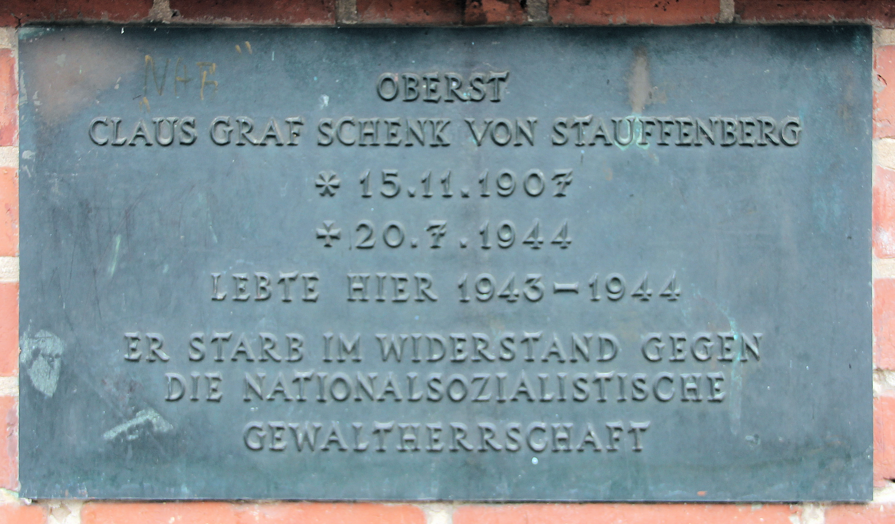 Memorial plaque, Claus Schenk Graf von Stauffenberg, Tristanstraße 8-10, Berlin-Nikolassee, Germany